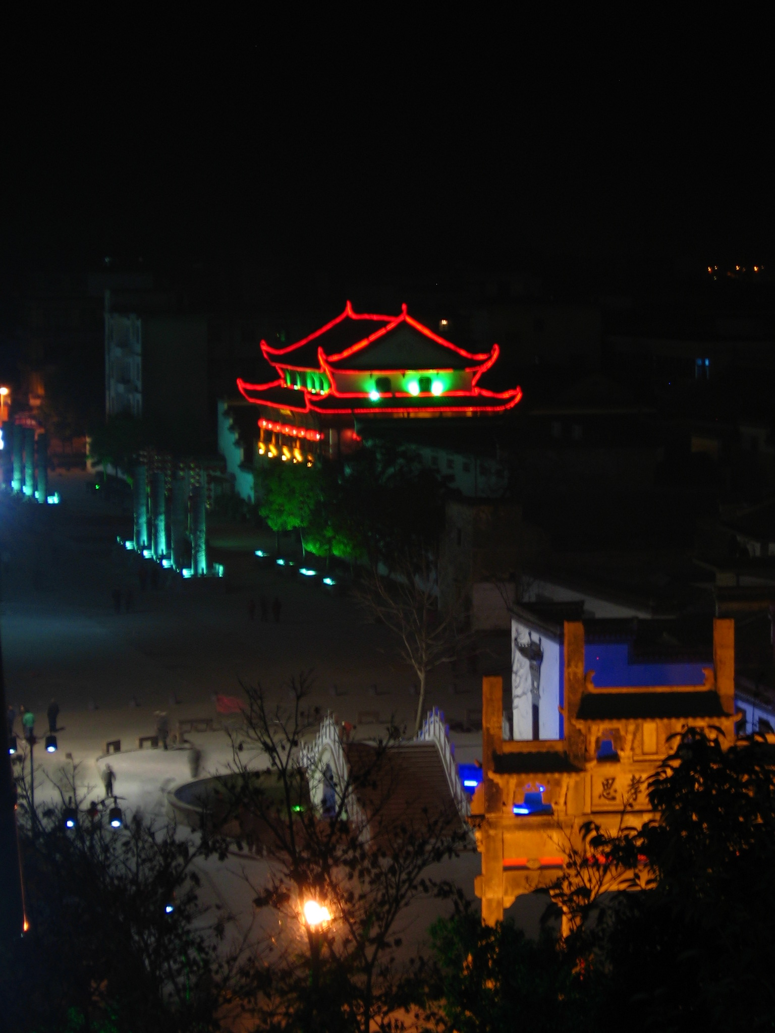 Zhuangyuan Square in Xiuning County, southern Anhui Province, China. Buildings illuminated at night.